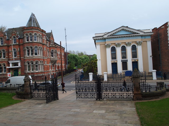 Nottingham - NG1. A view across Shakespeare Street to Shakespeare Villas (the street is so-named) from the steps of the former University College entrance, now Nottingham Trent University's Arkwright Building, with the Orthodox Synagogue on the... more